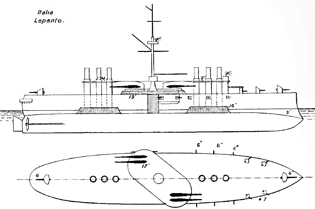 Sketch of the Italian battleship Lepanto class.